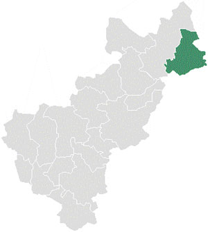 Map of the Municipalty of Landa de Matamoros in the State of Querétaro, México.